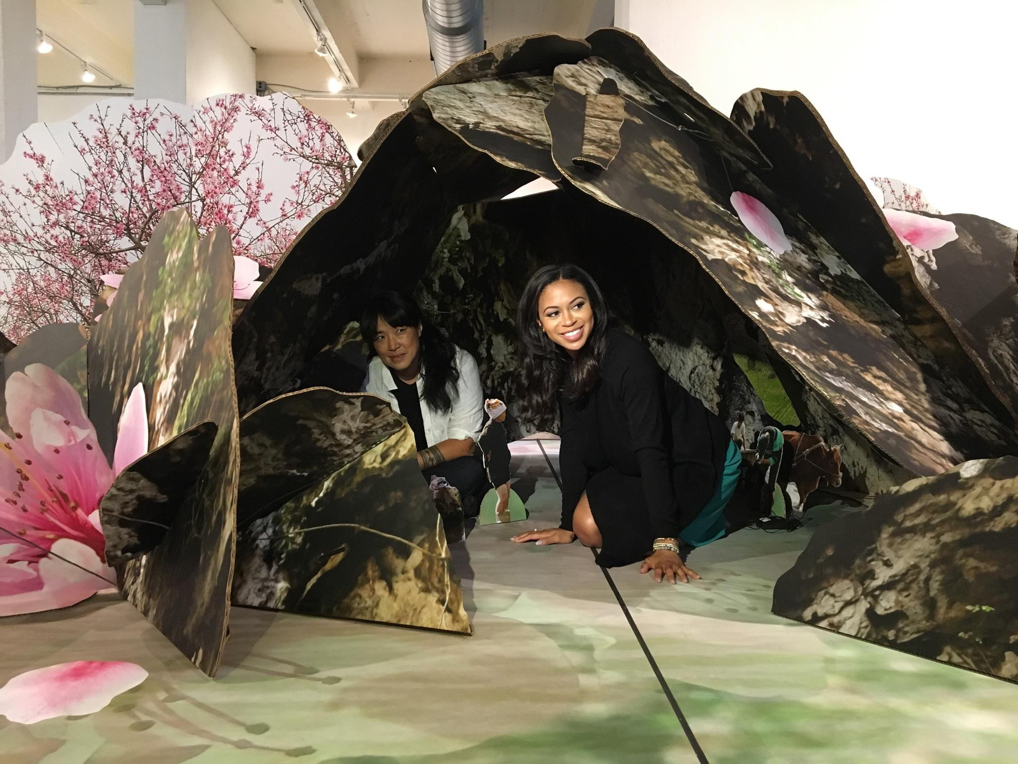 details of TaoHuaYuanJi